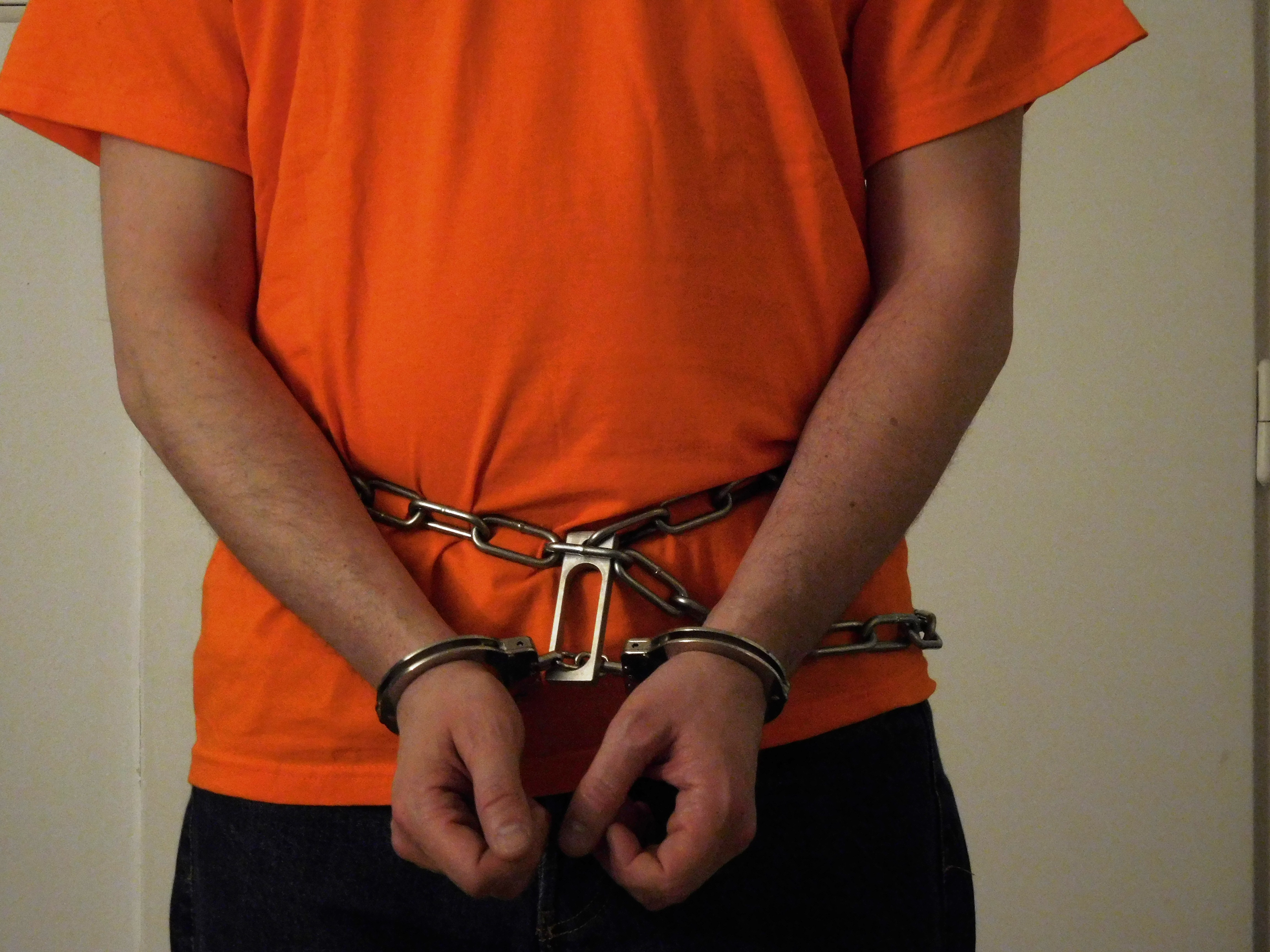 prisoner wearing handcuffs chained to his waist by a "martin" link belly chain